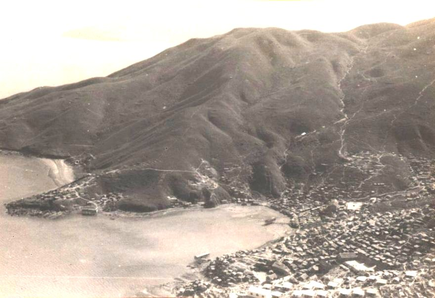 1952 of Tiu Keng Leng. 中文（香港）: 1952年的調景嶺。